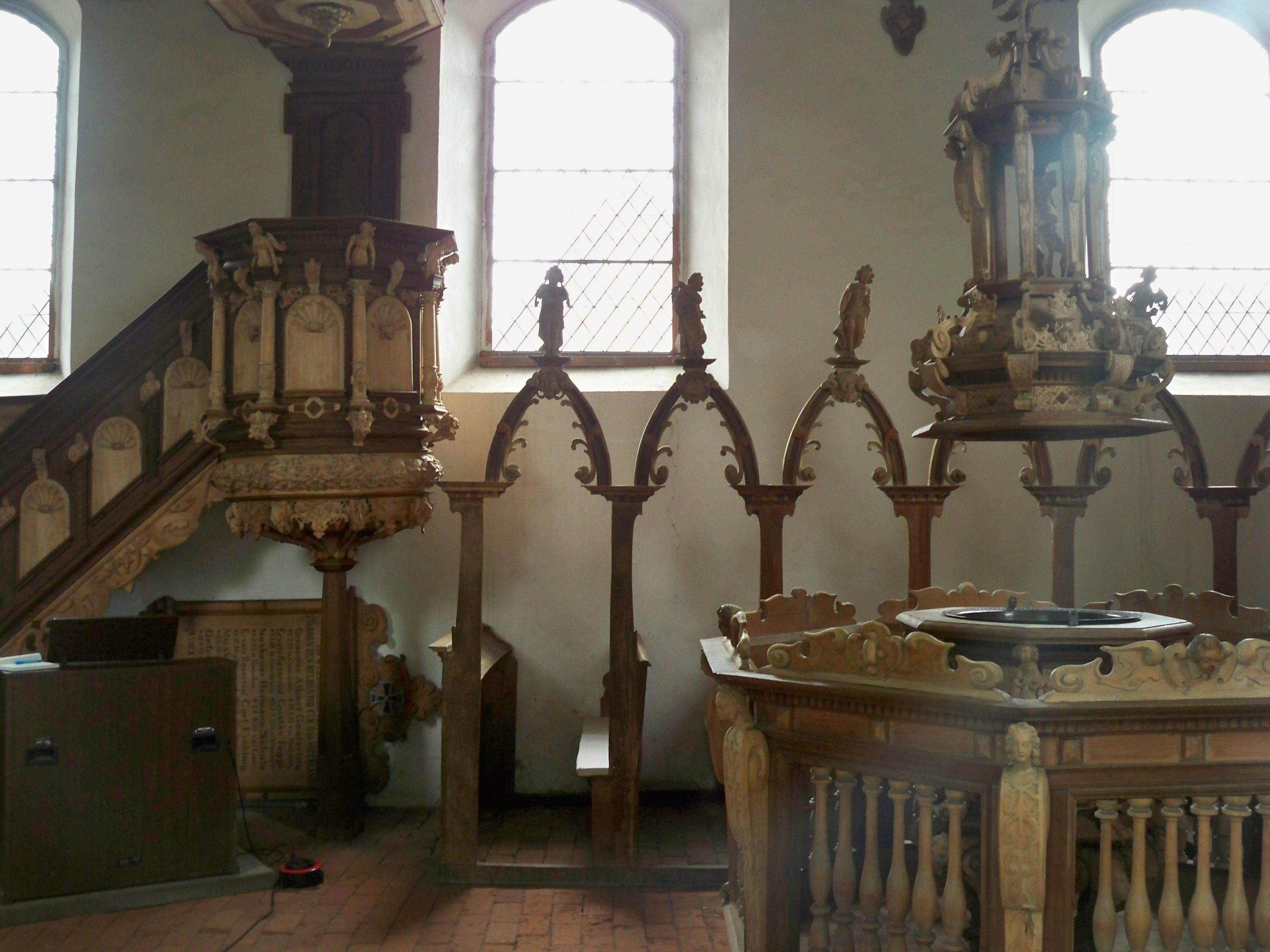 Interrior of Osterwohle church (detail)